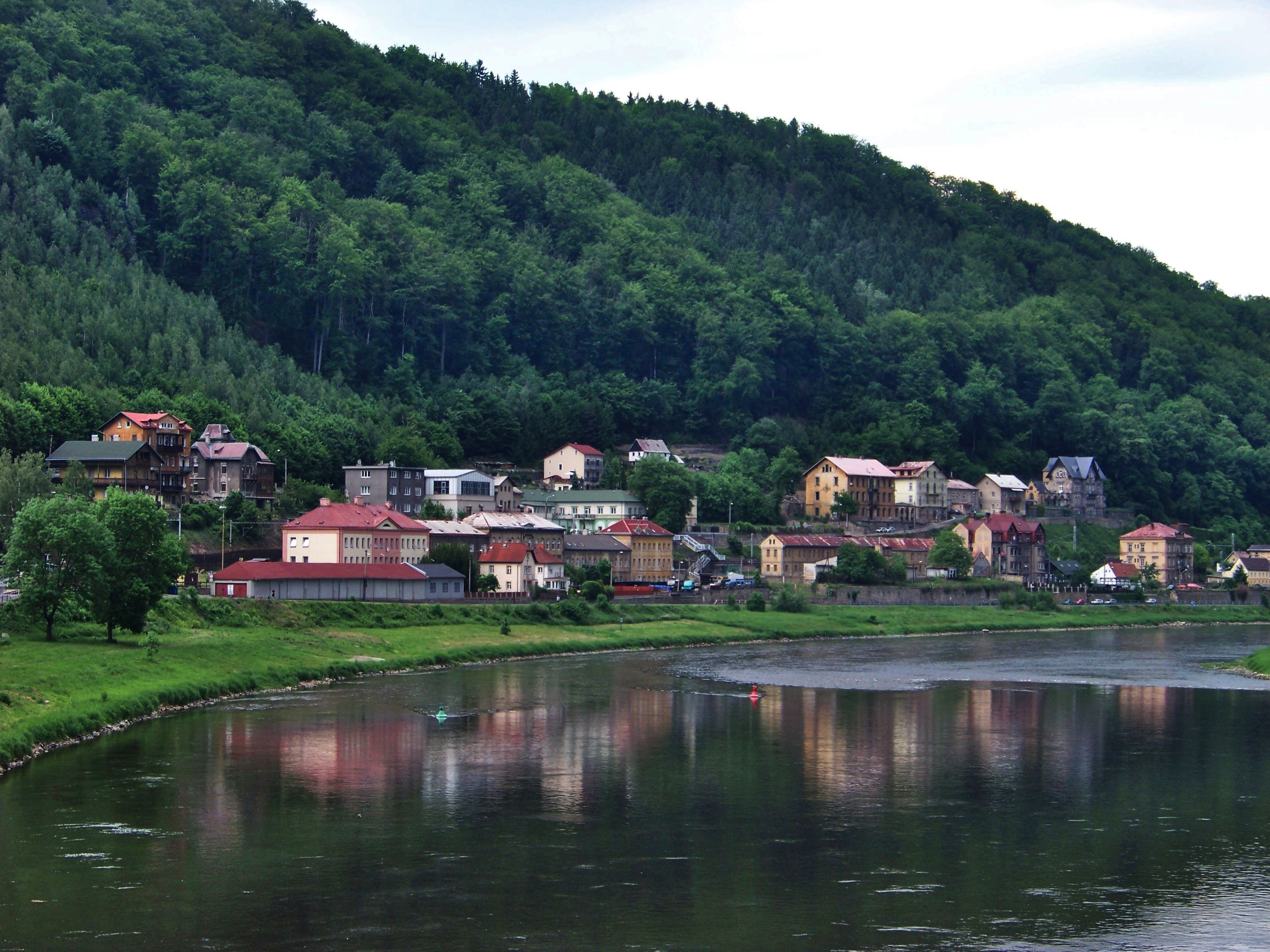 Děčín XI-Horní Žleb, Děčín District, Ústí nad Labem Region, the Czech Republic. Elbe river, seen from Tyrš Bridge. - OpenStreetMap(Info)